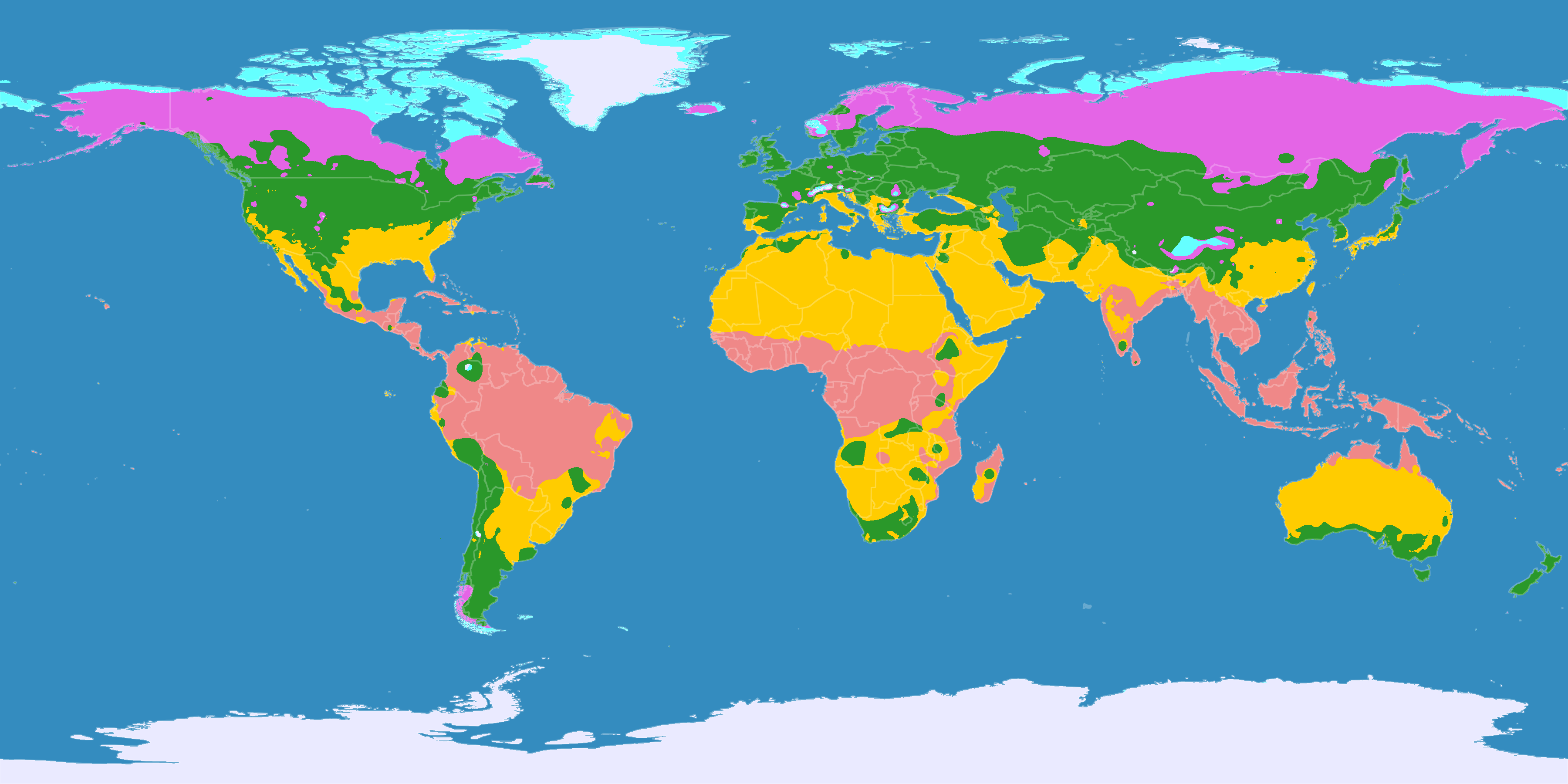 This map shows the Earth zones with tropical climate. Ice cap climate Tundra climate Boreal climate Warm temperate climate Subtropical climate Tropical climate